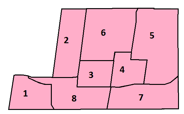 Markham, Ontario map of municipal wards, since 2014